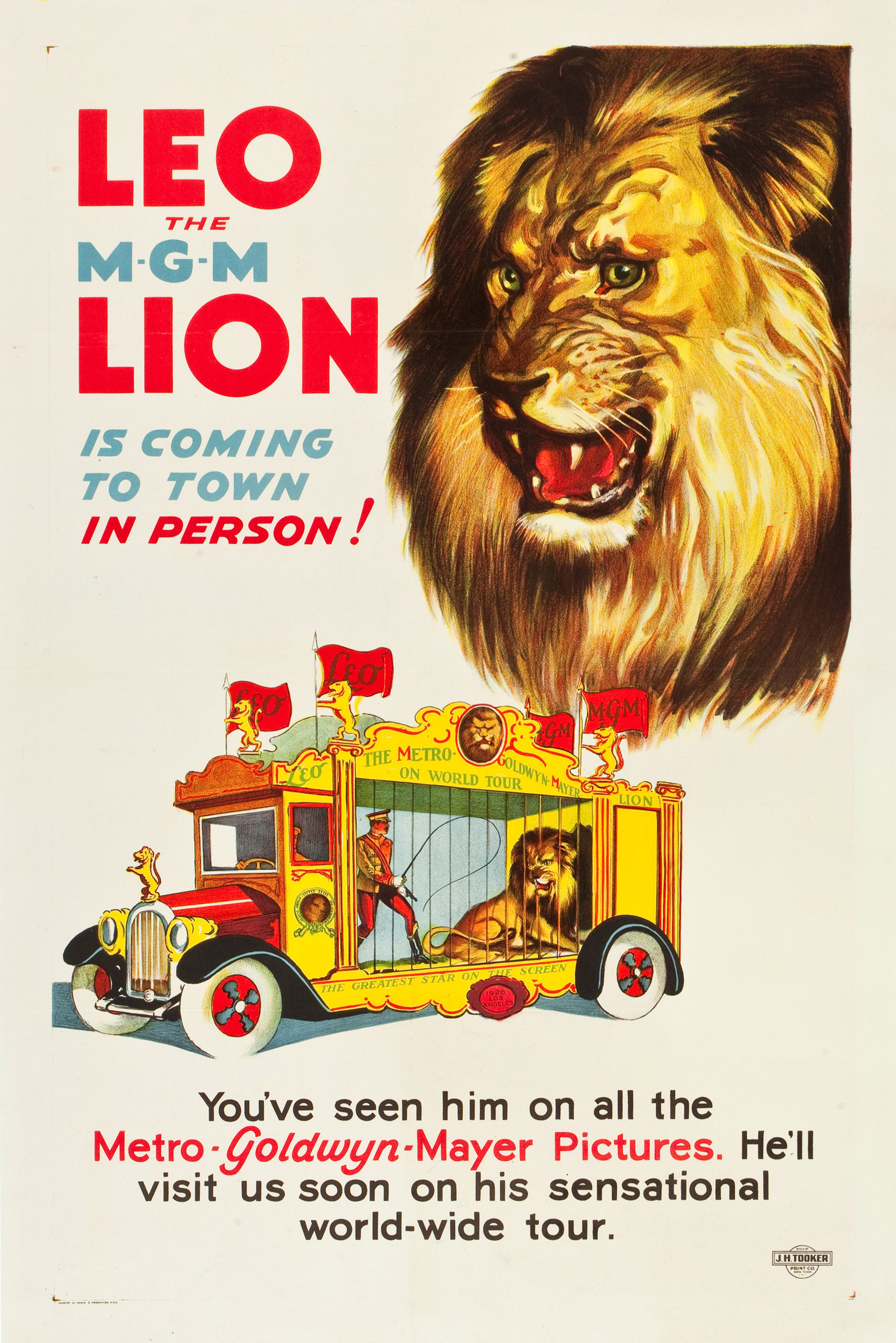 1928 poster promoting a traveling tour of Leo the Lion, the mascot of Metro-Goldwyn-Mayer. Description from source: "This promotional poster was used to advertise the traveling appearance of the MGM mascot as presented by Volney Phifer, animal trainer extraordinaire who trained the first lions used by the studio. The poster was most likely displayed when touring 'Jackie,' one of Phifer's most famous lions and considered to be the toughest creature in show biz, as he survived two train wrecks, an earthquake, a boat sinking, an explosion at the studio, and a plane crash that left him stranded in the Arizona wilderness for several days (pilot Martin Jenson left the cat with some snacks while he went in search of help). It's no wonder the lion earned the nickname 'Leo the Lucky.'"